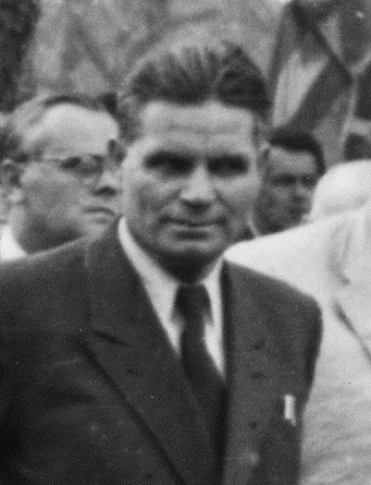 István Dobi in 1948